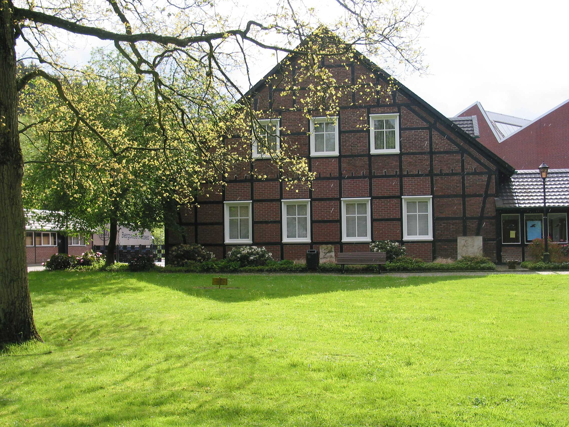 Museum axle wheel and car in Wiehl at the company BPW axle factory KG Author This picture was made available kindly by Manfred Nierstenhöfer - for Wikipedia* Licence GNU FDL and CC-by-SA